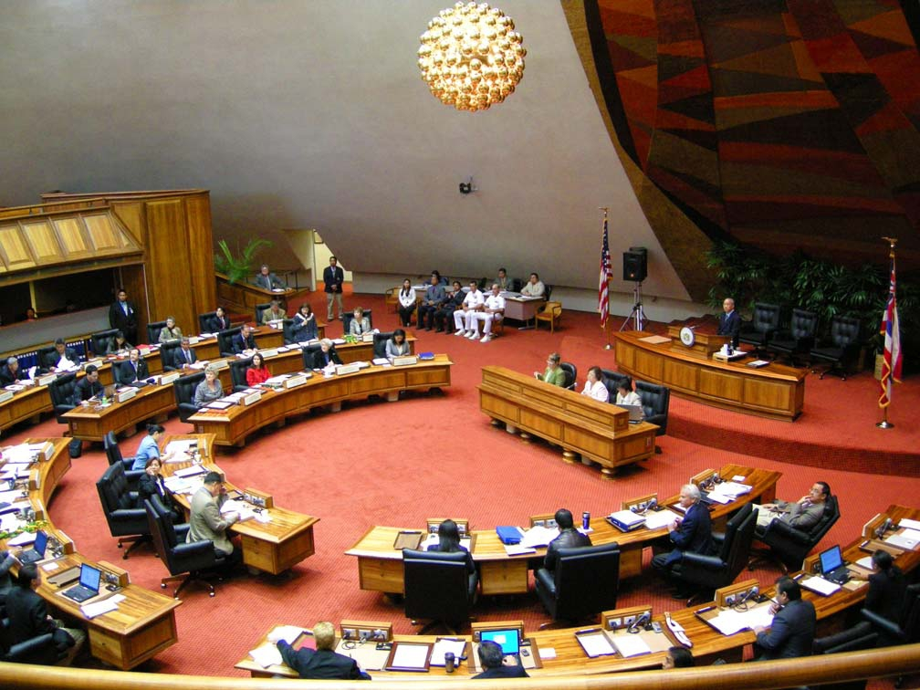 The five-member delegation from Pearl Harbor Naval Shipyard, seen in the photo seated in a row to the left of the U.S. flag, wait on the floor of the state House chambers to be introduced to legislators.